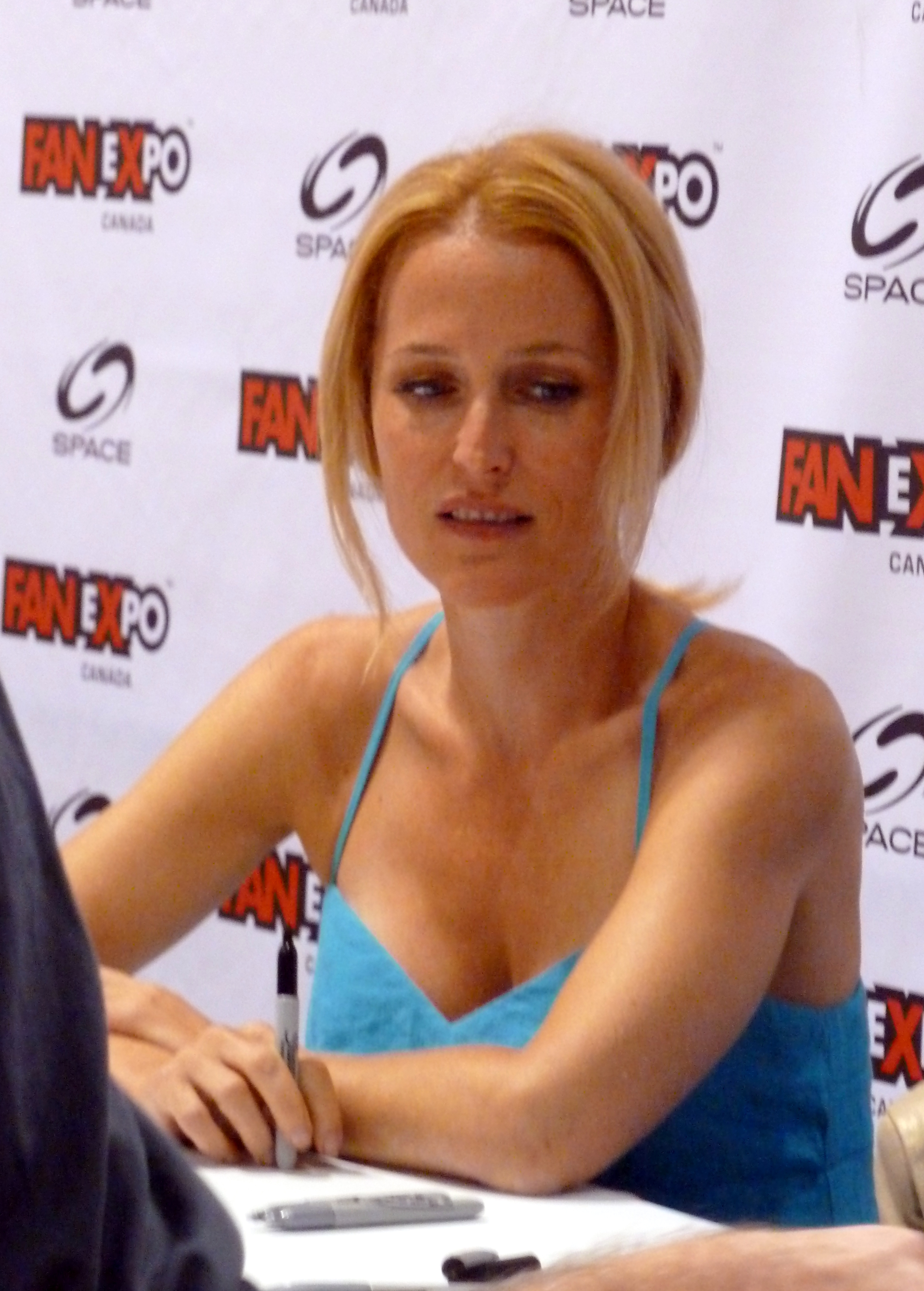 Fan Expo Canada in Toronto in 2012.